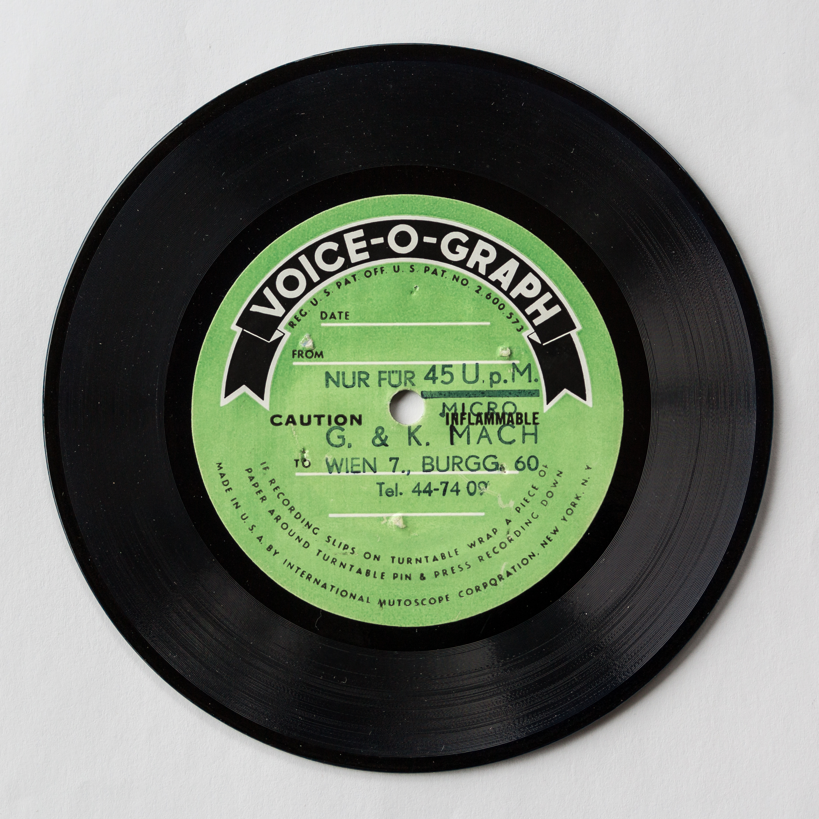 “Talking Letter” or intercom letter, Voice-O-Graph